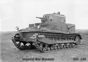 Photograph of Vickers Medium Tank Mk IA*.